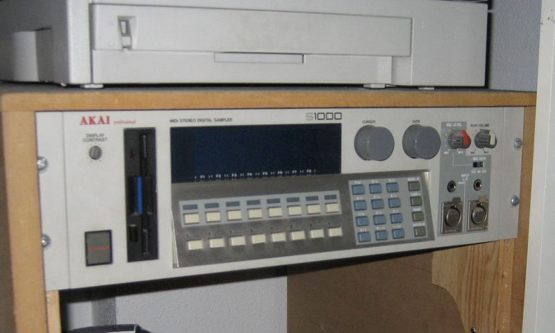 Akai S1000 MIDI Stereo Digital Sampler